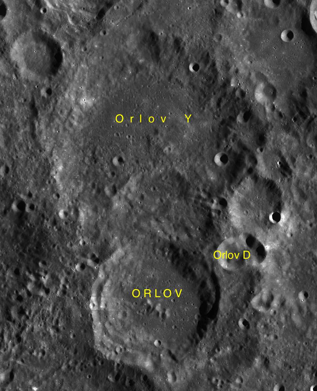 Part of the chart LAC-104 used for the presentation